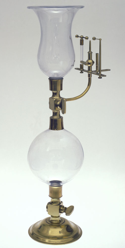 ArtistUnknownAuthorAlessandro VoltaDescription